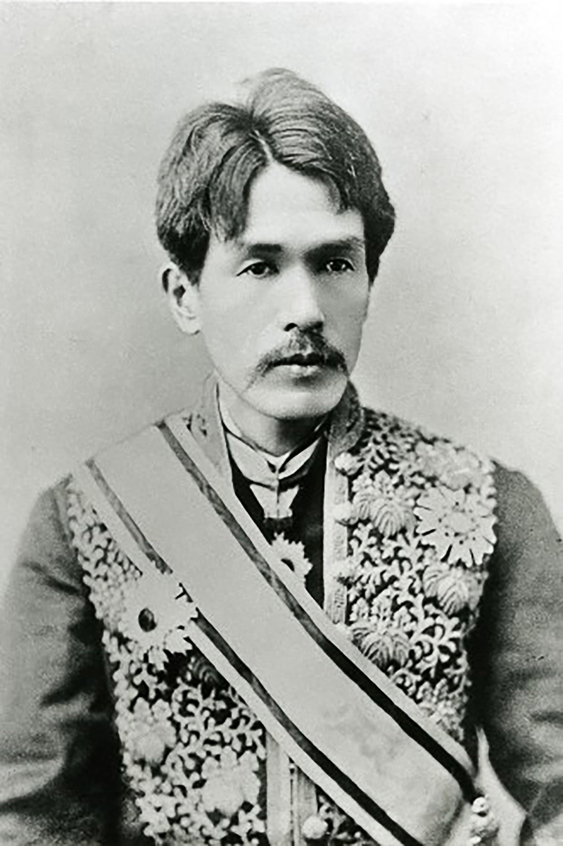 Inoue Kowashi (1843–1895)